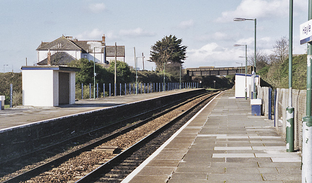 Hayle Station. View NE, towards Truro ad Plymouth; ex-Great Western Plymouth - Penzance main line. (See SW5537 : Hayle Station for view the other way).